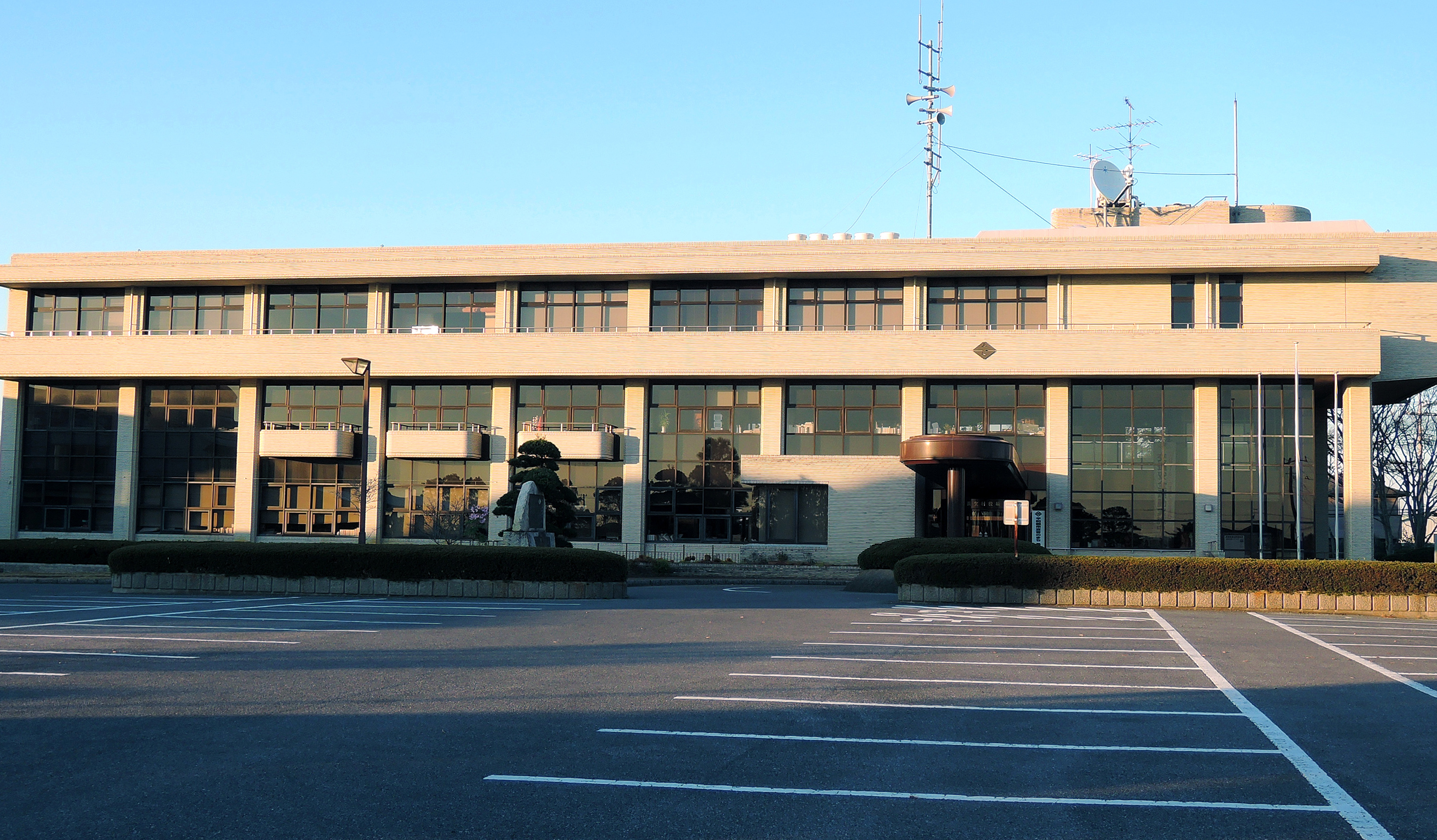 Chosei village hall,Chiba prefecture,Japan